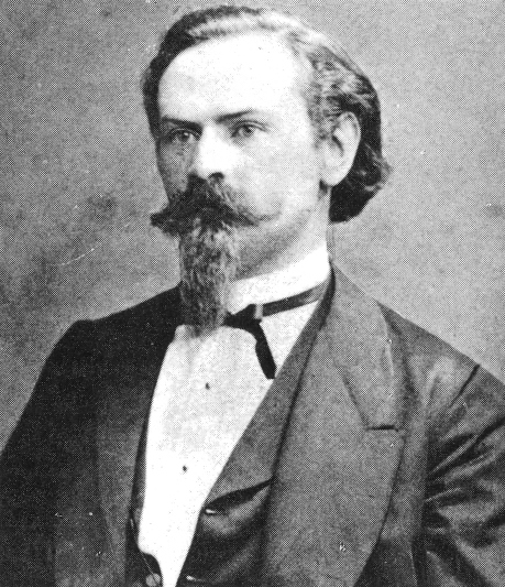 Photograph of the Finnish musician Lorenz Nikolai Achté (1835–1900).